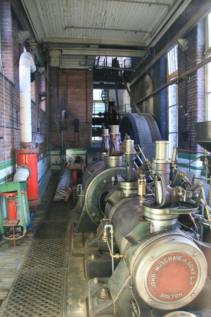 Mill engine "Edna" at Bamford Mill 1907 Musgrave horizontal tandem compound engine. This was retained when the mill was converted to housing but the house is in need of renovation and a boiler plus a group of volunteers to run it would be most welcome.